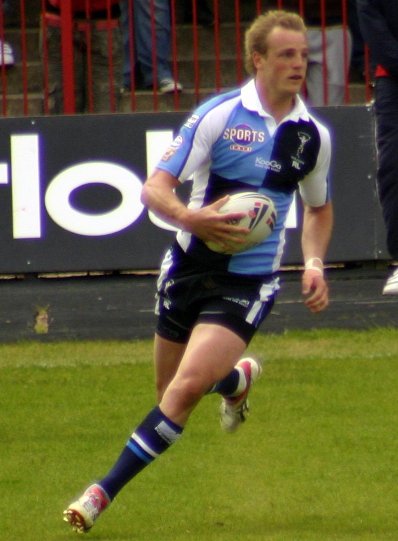 picture of David Howell